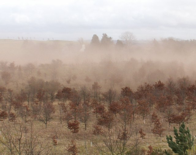 Soil erosion, Southfield Days of dry warm south westerly winds and bare fields provide the ideal conditions for windblown soil erosion. The fine particles of sandy soil become airborne and get into everything. Here by Southfield a plantation of young trees is being sand blasted. Where this soil became airborne 367915